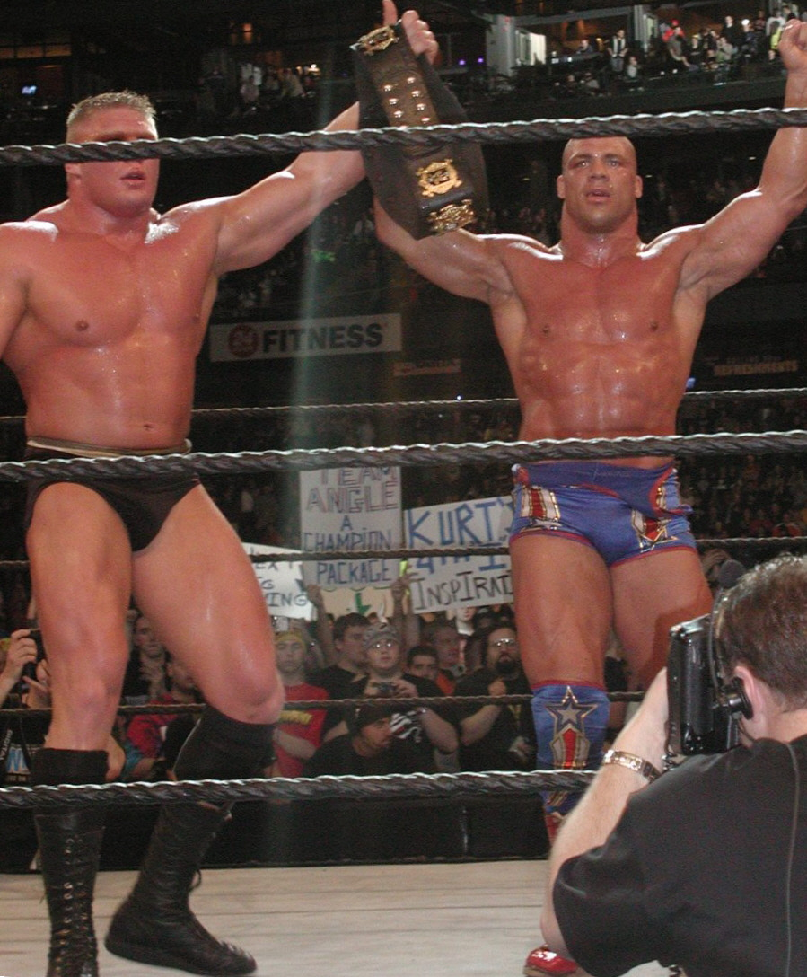 Brock Lesnar and Kurt Angle at WrestleMania XIX, Safeco Field Seattle, WA March 30en:2003.